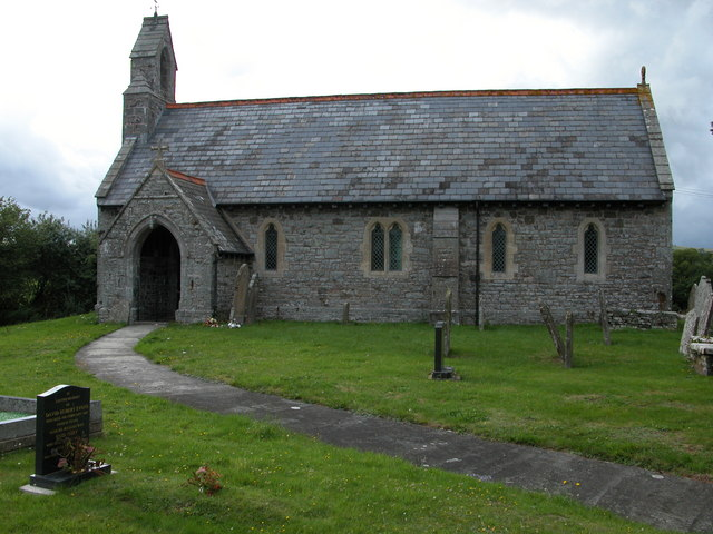 Llanfechan Church. Llanfechan church is dedicated to St Afan In the churchyard are the graves of great-great grandparents of mine, originally they were from south Warwickshire and farmed around the Cilmery area from around the 1860s until their descendants moved to Worcestershire and Gloucestershire in the early 1900s.